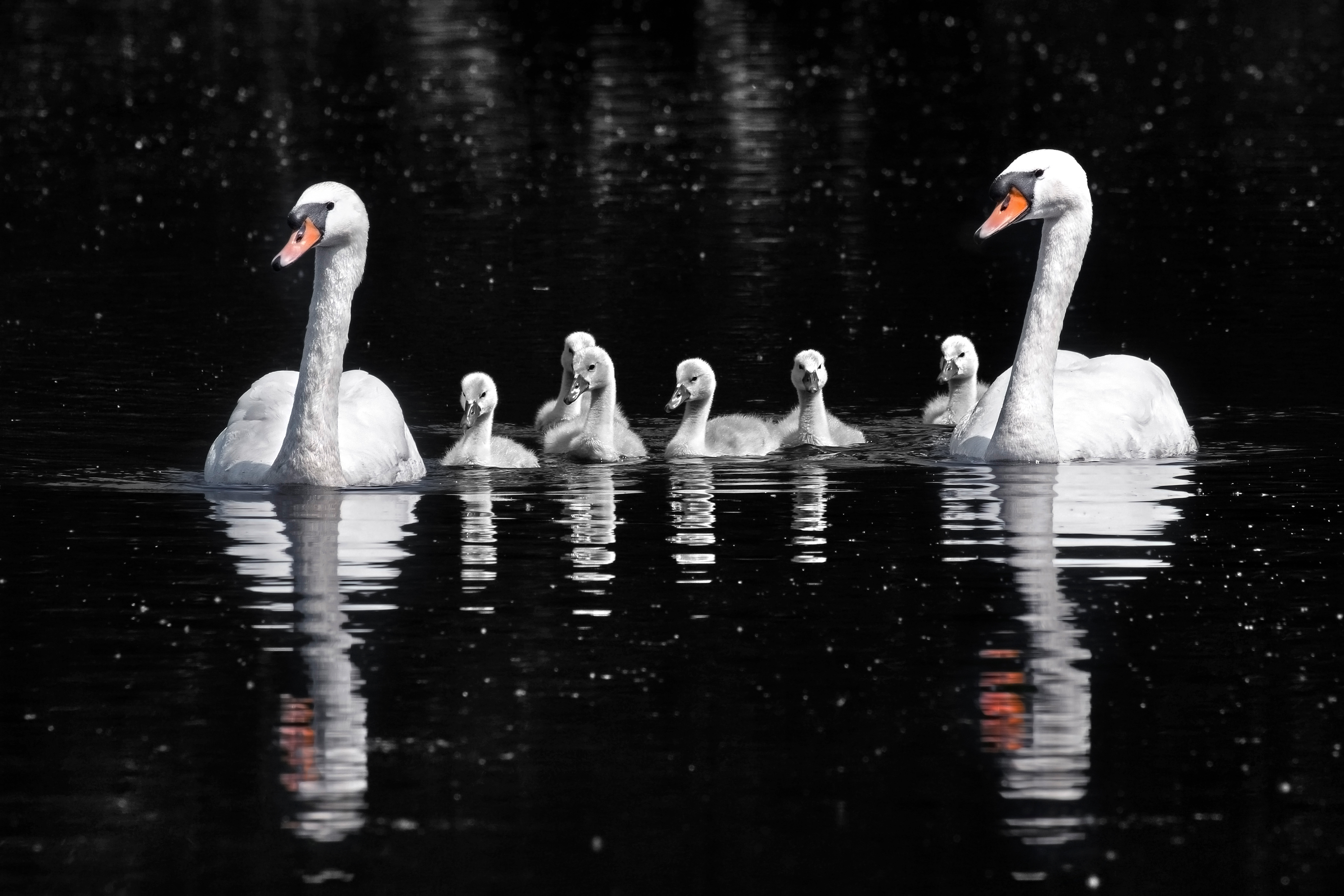 Mute swan (Cygnus olor) and cygnets, Wolvercote Lakes, Oxford